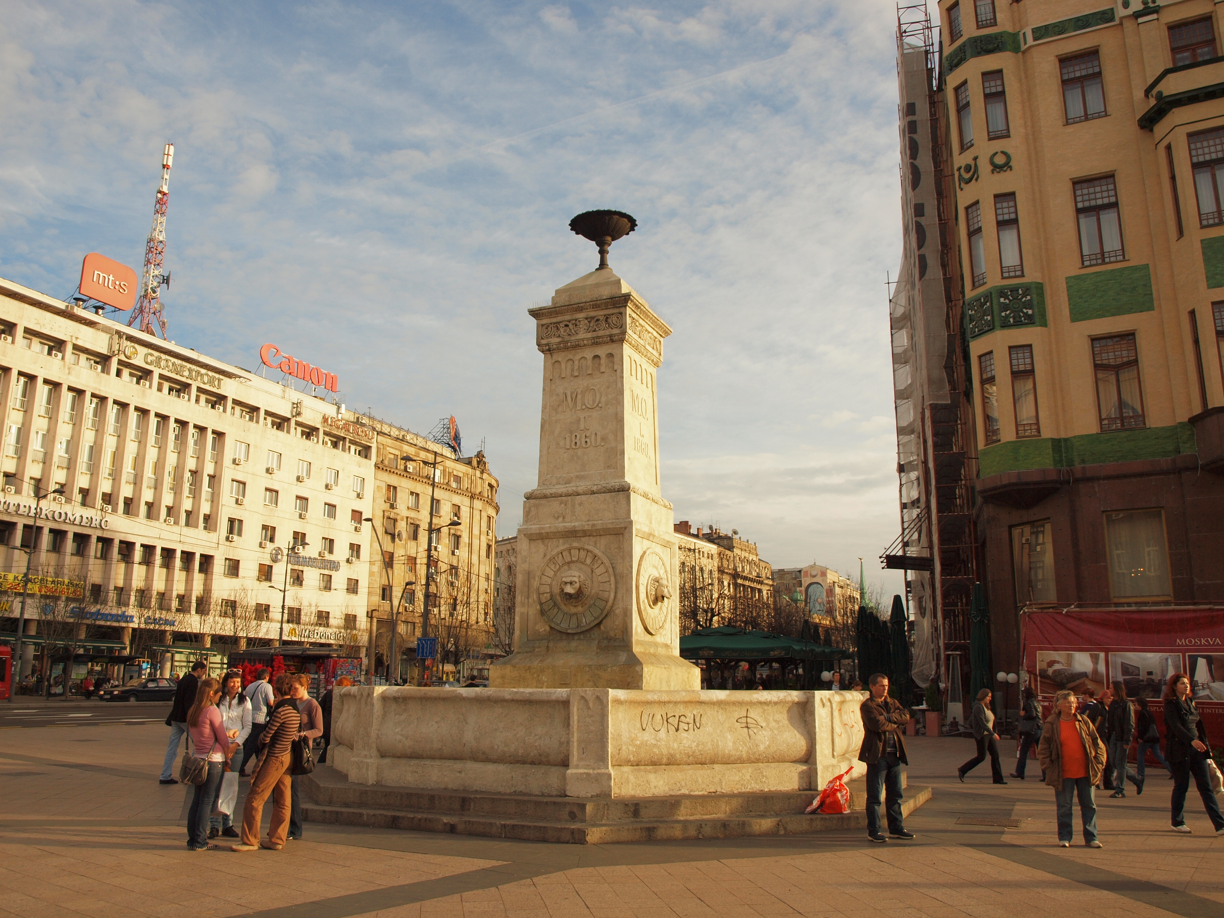 T. u. B.